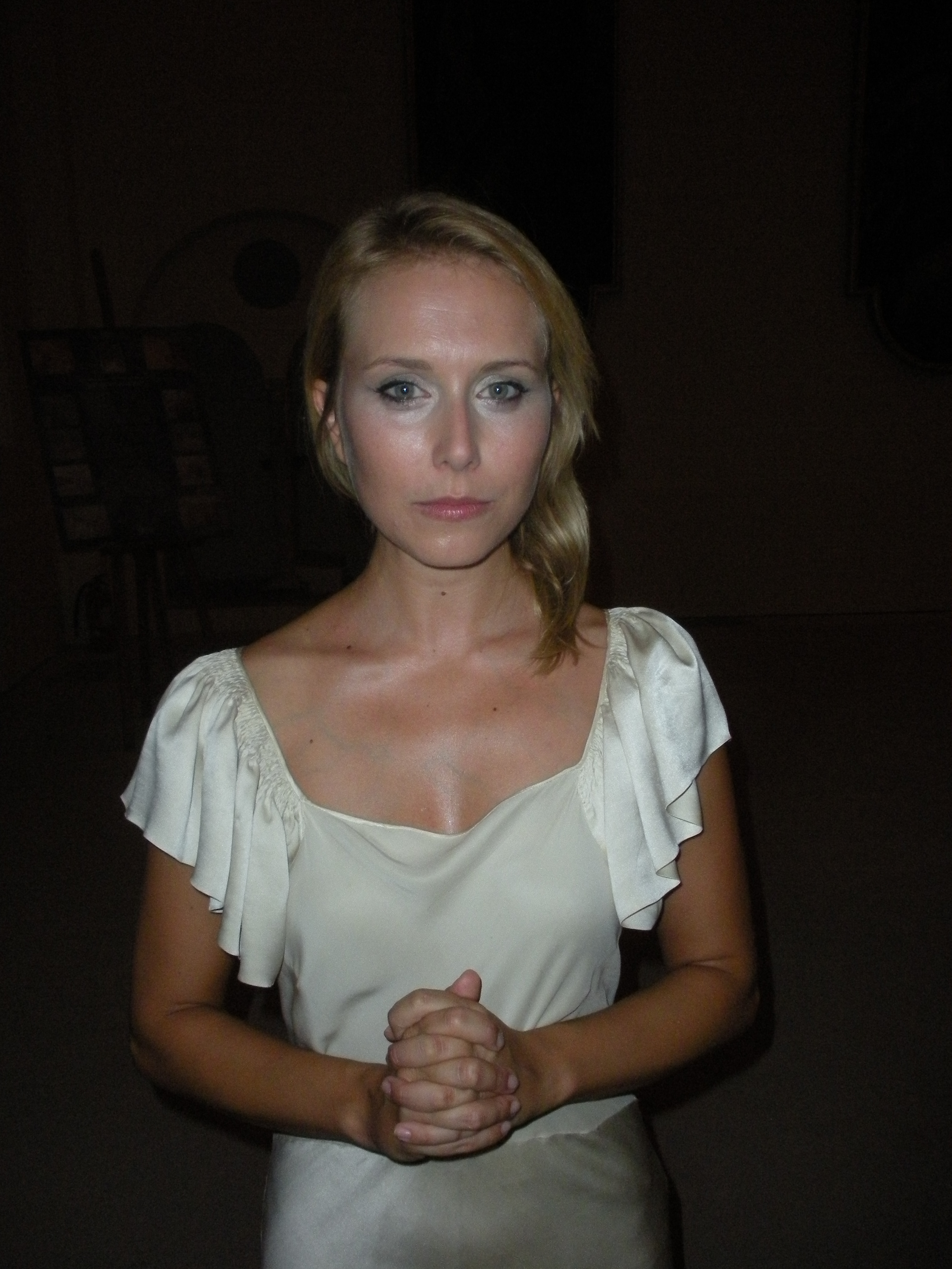 Margot Sikabonyi, Italian actress.